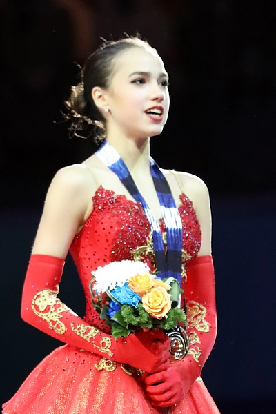 Alina Zagitova at the Grand Prix Final 2017 - Awarding ceremony